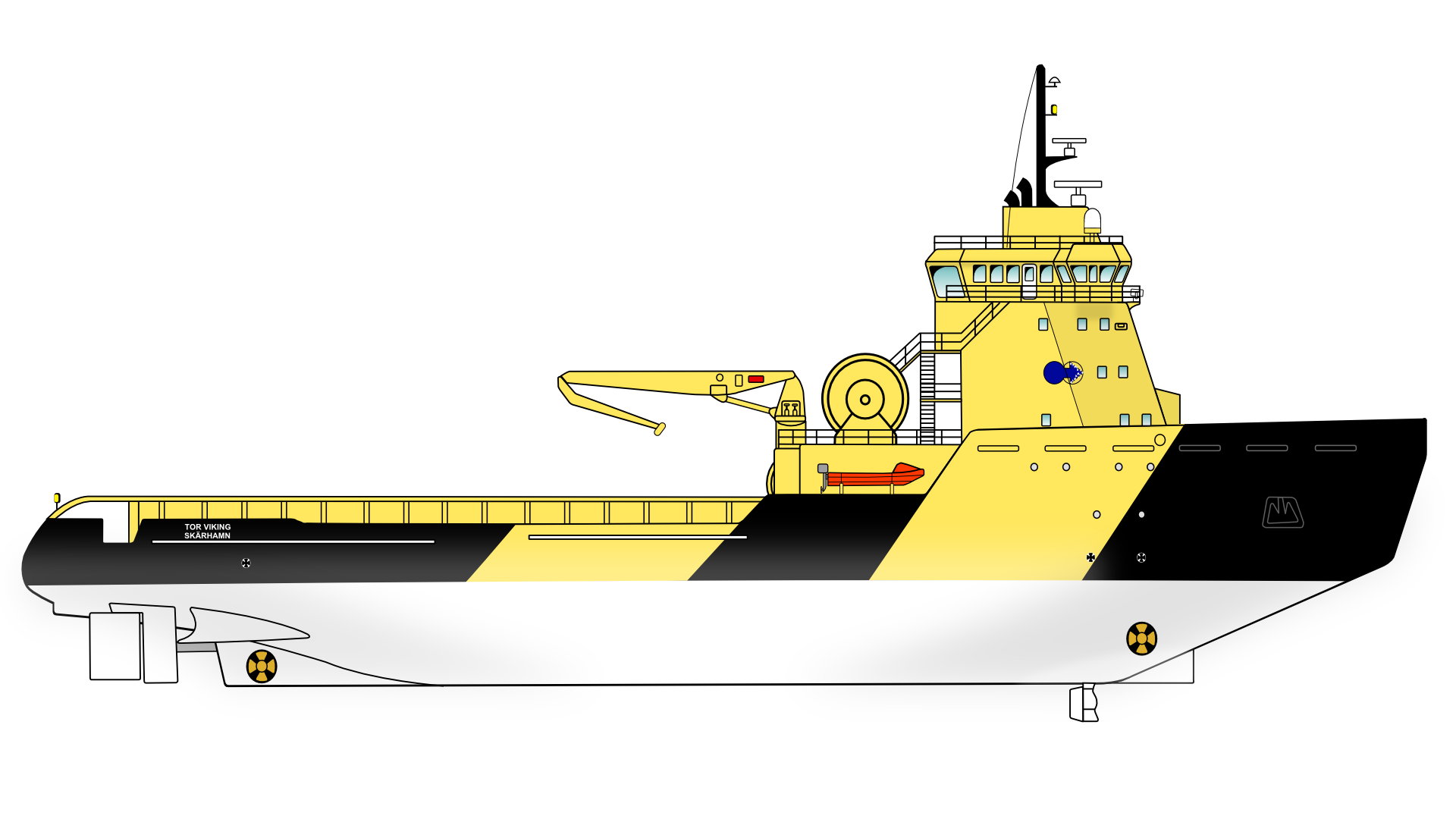 Swedish vessel MS Tor Viking, delivered in 2000